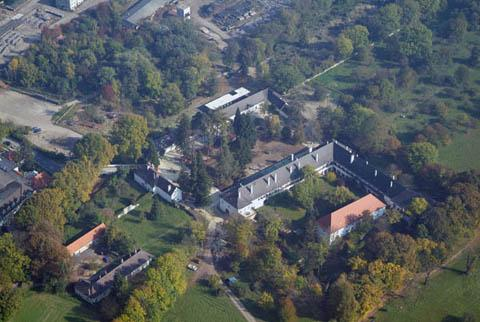 Lackenbach mansion, Burgenland, Austria, aerialphotography